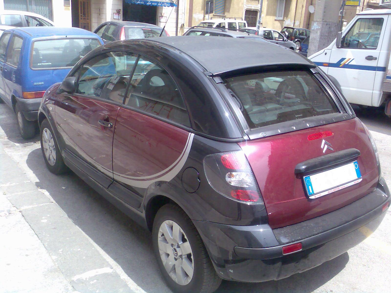 a red Citroen C3 Cabriolet